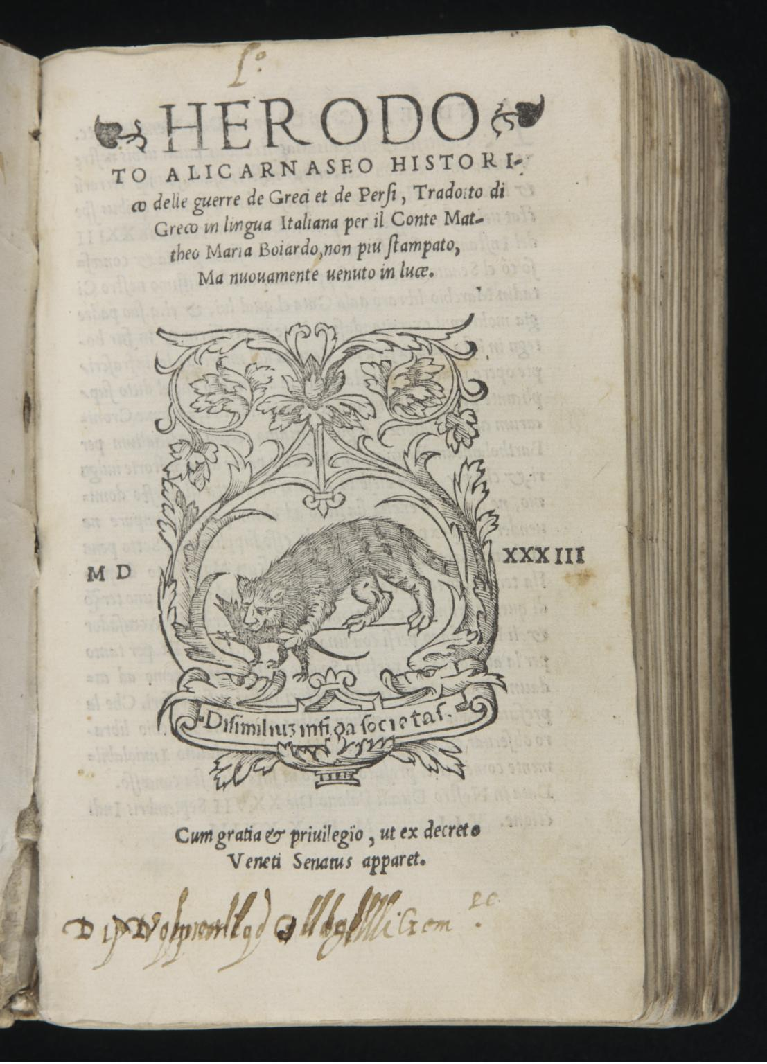 "Herodoto Alicarnaseo historico Delle guerre de Greci et de Persi tradotto di Greco in lingua Italiana per il conte Matteo Maria Boiardo; non piu stampato, ma nuovamente venuto in luce." Title page of the history of the Greek and Persian Wars (Herodotus' Histories), printed at Venice by Johannes Antonius de Nicolinis de Sabio. Dated 1502. Translated from Greek to Italian for count Matteo Maria Boiardo. Image courtesy of the Beinecke Rare Book & Manuscript Library, Yale University, New Haven, Connecticut. Transcription ☙ HERODO ❧ TO ALICARNASEO HISTORI- co delle guerre de Greci et de Perſi Tradotto di Greco in lingua Italiana per il Conte Mat- theo Maria Boiardo, non piu ﬅampato, Ma nuouamente uenuto in luce. MDXXXIII Diſimiliuʒ inſi da ſocietaſ. Cum gratia & priuilegïo, ut ex decreto Veneti Senatus apparet.